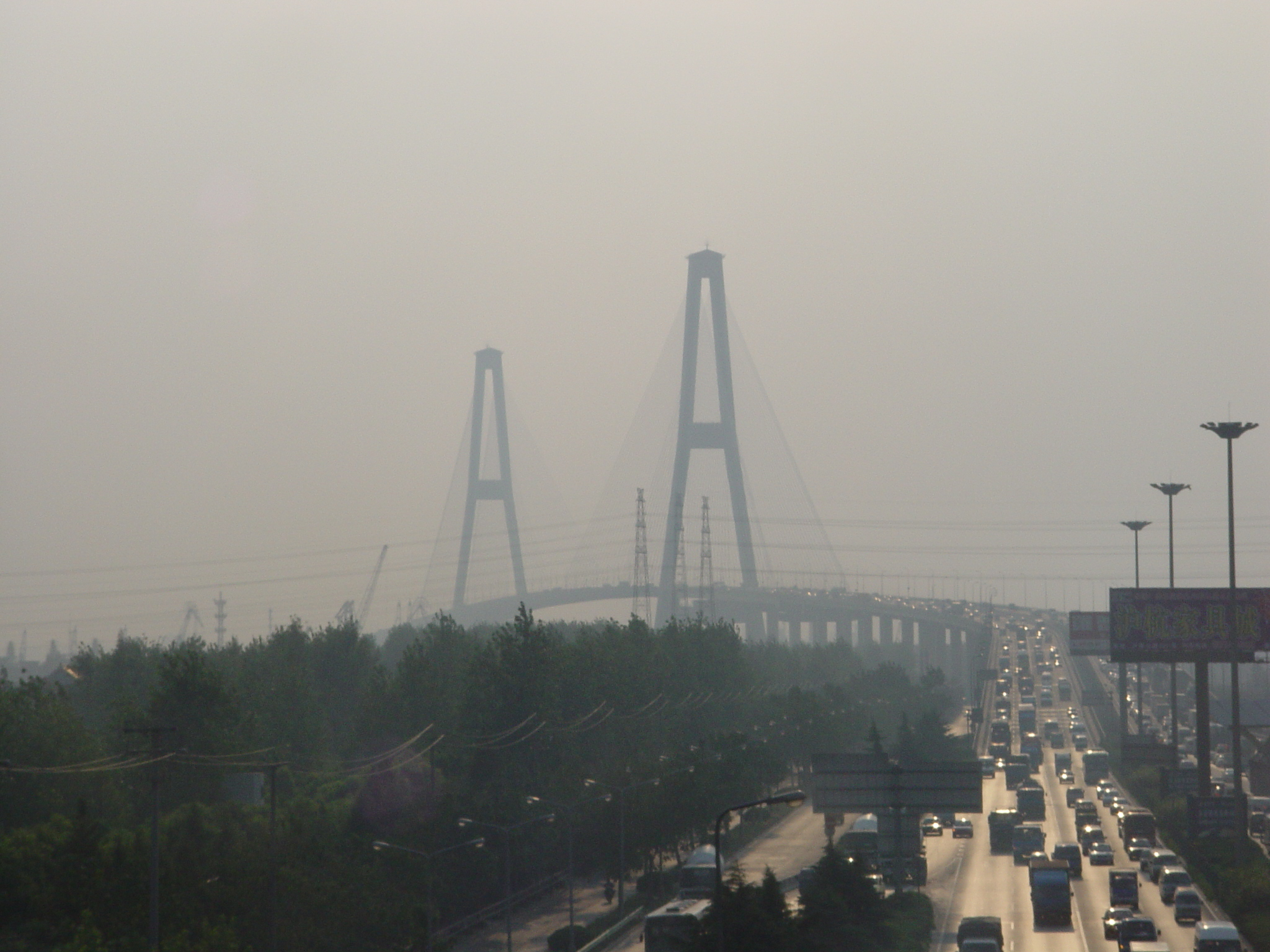 The Xupu Bridge over the Yangtze River in Shanghai